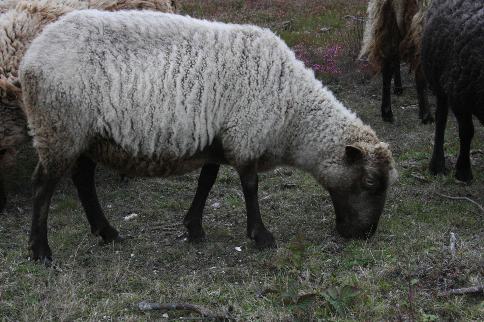 Shetland sheep: Seaxpenne Esther, 4-year-old fawn katmoget ewe, grazing heathland in Hampshire, England.